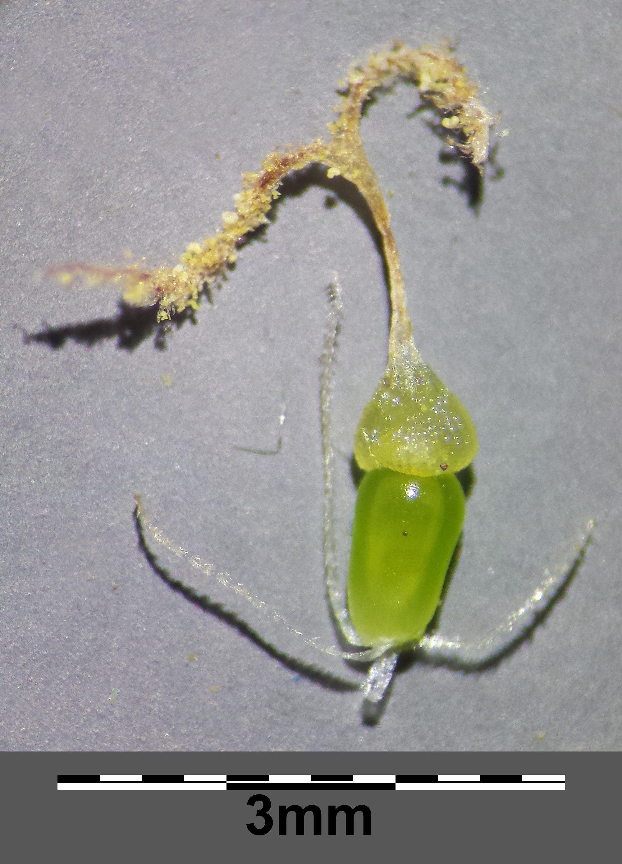 Flower with bristles and ovary with styli Taxonym: Eleocharis uniglumis ss Fischer et al. EfÖLS 2008 ISBN 978-3-85474-187-9 Location: "Irissee" in Donaupark, Vienna-Donaustadt - ca. 160 m a.s.l. Habitat: shore of a pond